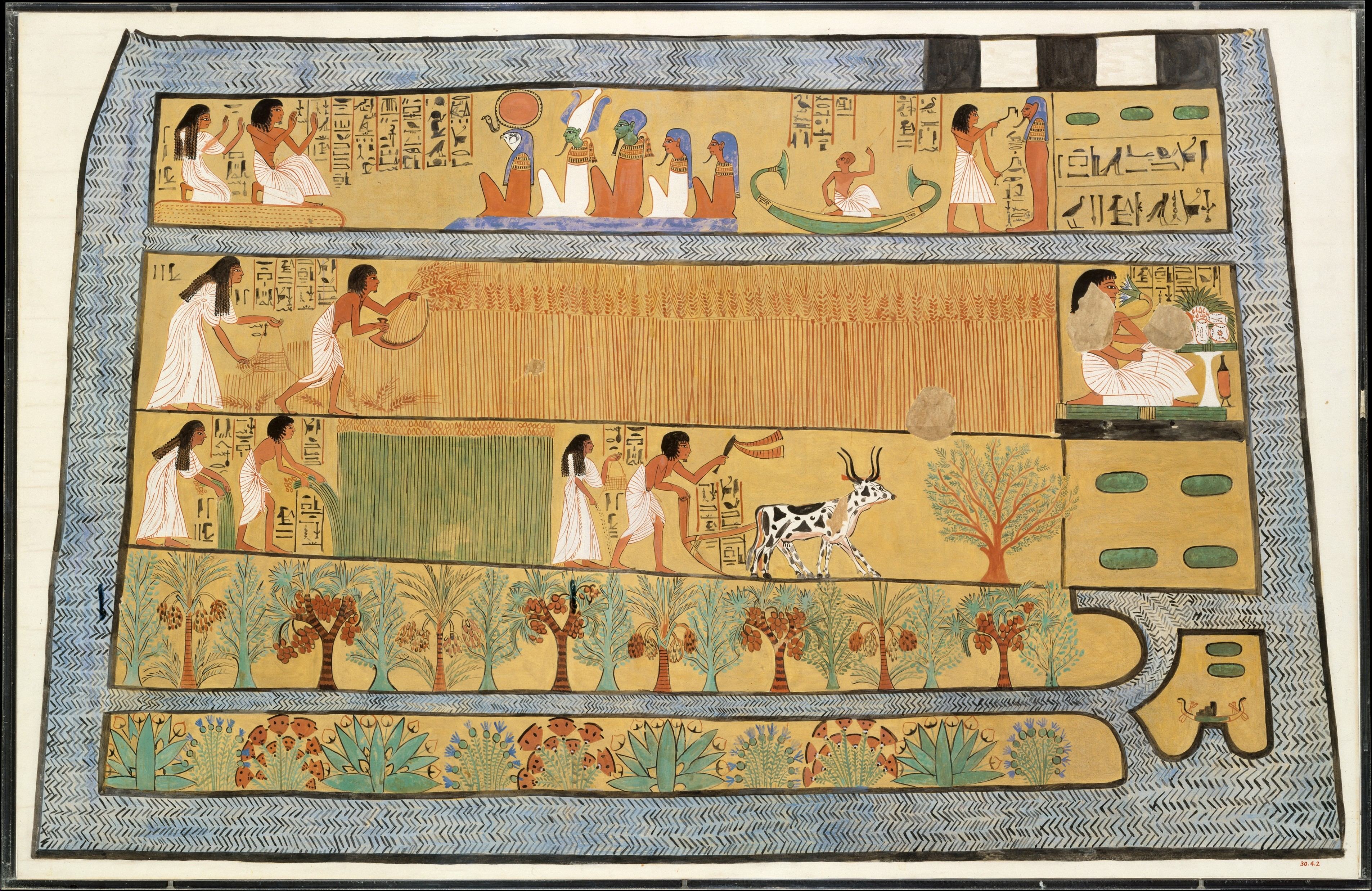 Facsimile, Sennedjem (TT 1), Iaru